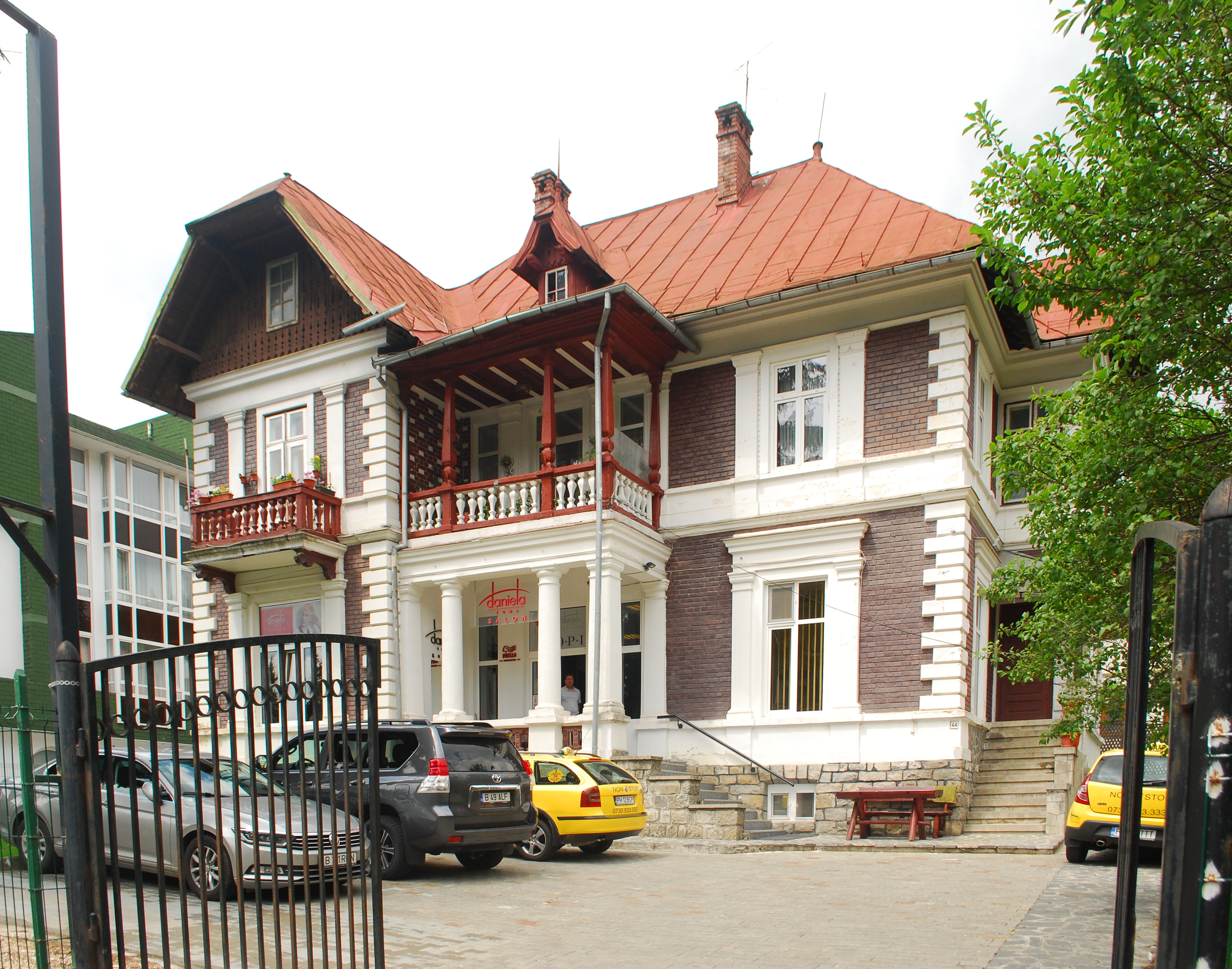 Radu Mavrodineanu house in Sinaia, Prahova County, Romania